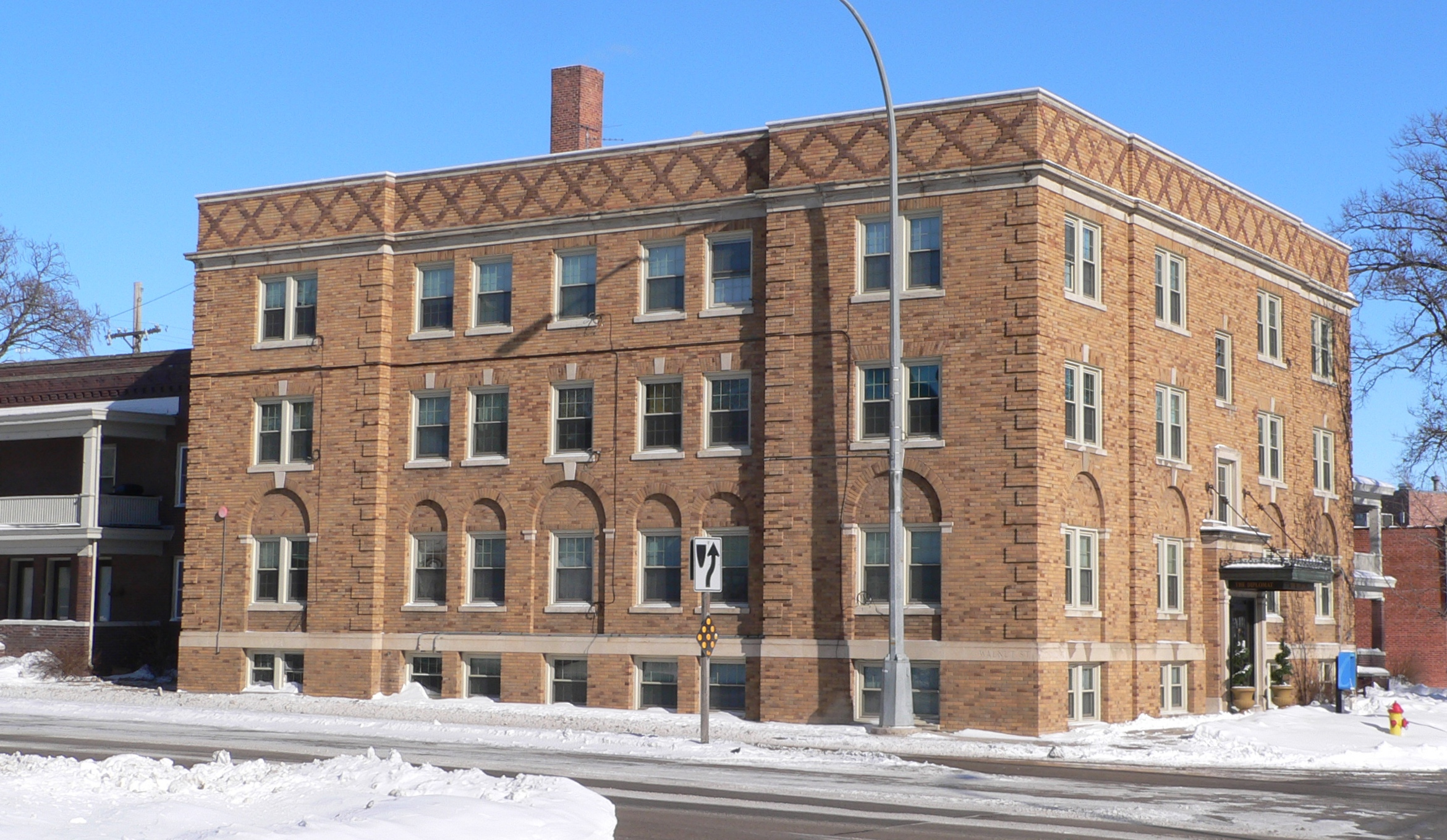 "The Diplomat" apartment building, at 324 W. Koenig, Grand Island, Nebraska; seen from the southwest. The building was constructed in 1928. It is part of the Lee Huff Apartment Complex, which is listed in the National Register of Historic Places. The two-story flat partly visible at left is also part of the complex.